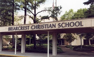 The entrance to Briarcrest Christian School campus in Memphis.